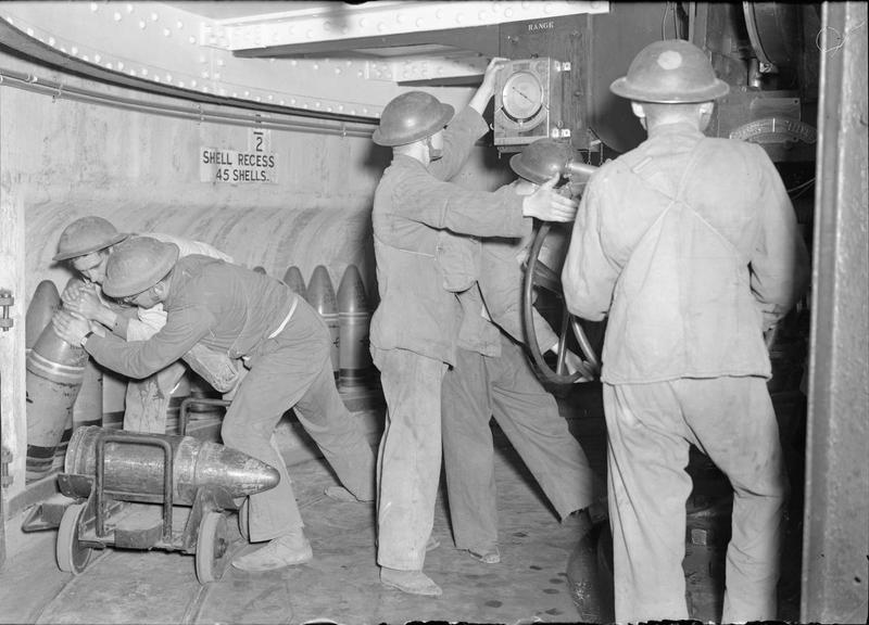 The British Army in the United Kingdom 1939-45 In the magazine room below a 9.2-inch gun platform at Culver Point Battery, Isle of Wight, 24 August 1940.